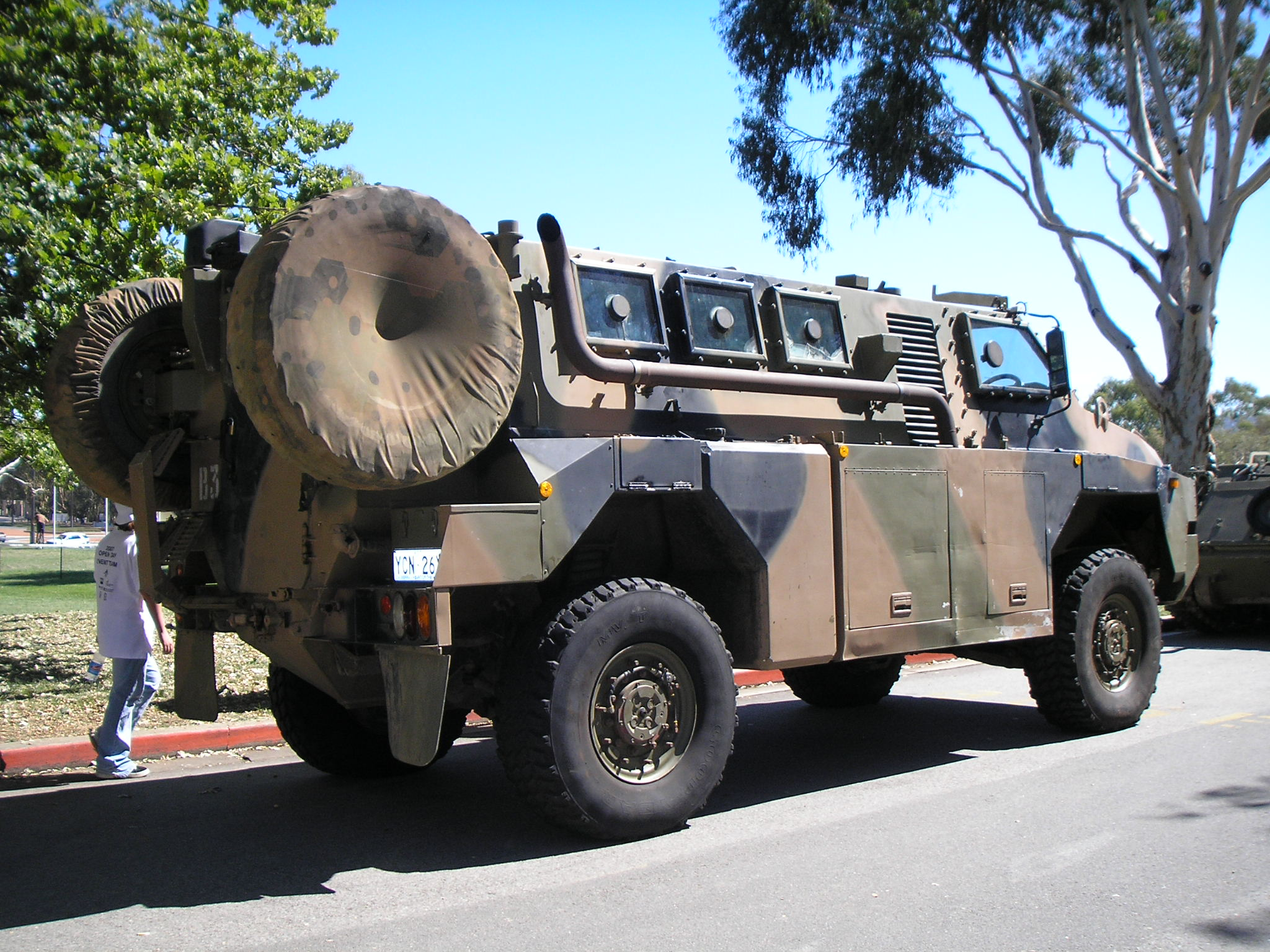 Rear view of a a pre-production Bushmaster IMV at the Australian War Memorial open day, 10 March 2007.